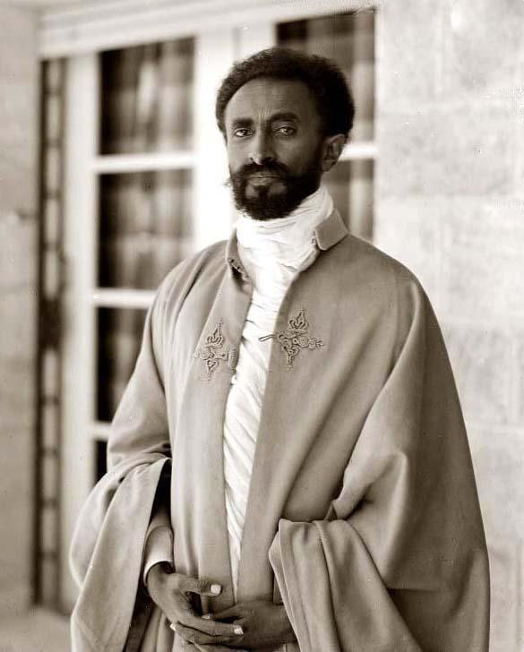 Haile Selassie I of Ethiopia